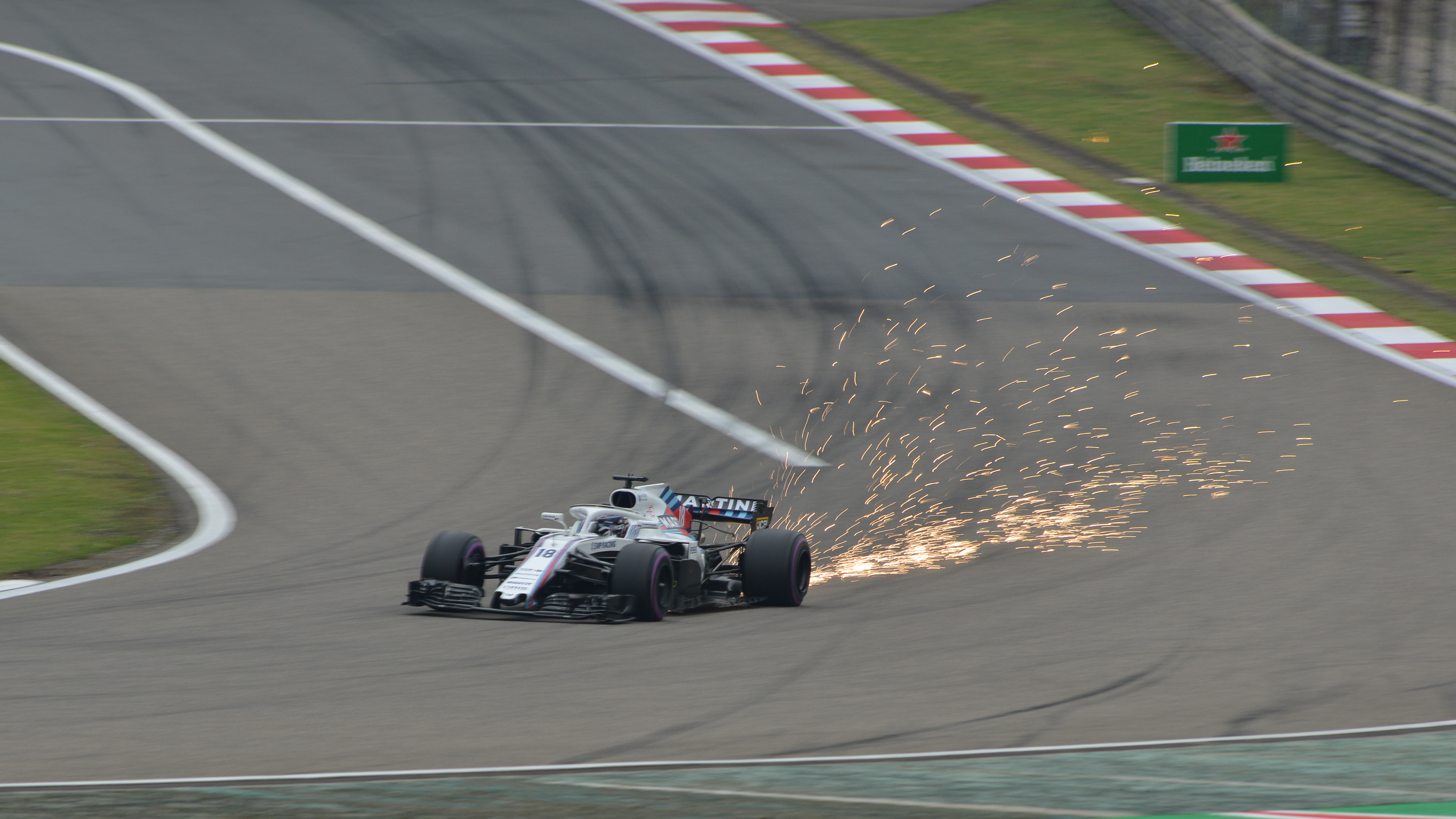 Williams Mercedes